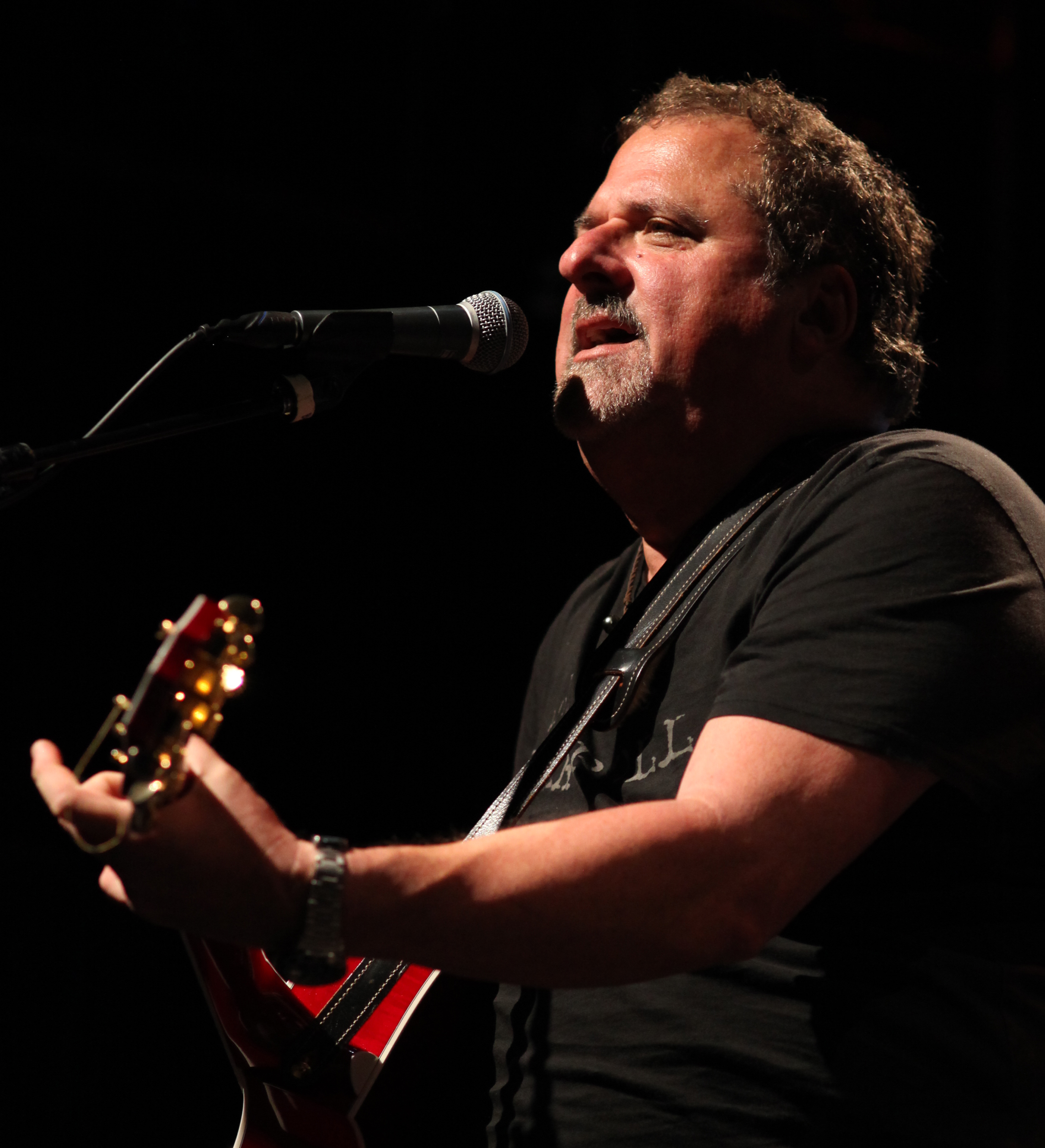 IMG_2188 DiPiero performing at the CMA Songwriters' Series in New York City, September 2014.